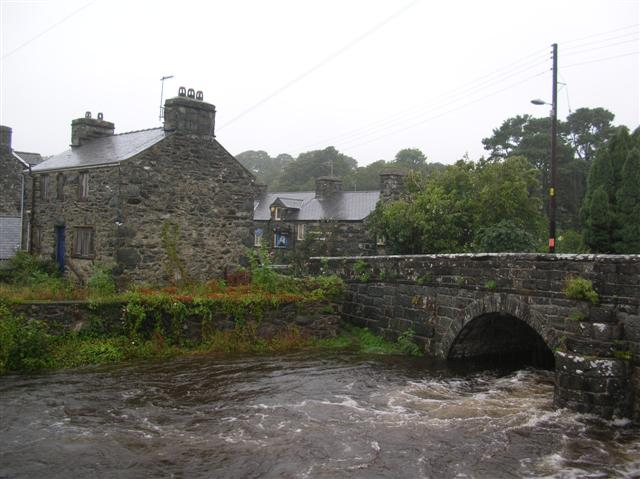 Llanbedr - Artro in flood. Just compare this to 221378. Following two days of heavy rain the artro had broken its banks.